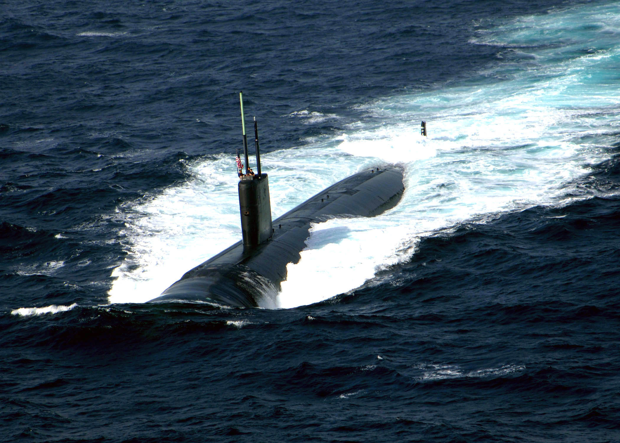 Persian Gulf (June 25, 2005) — The Los Angeles-class fast-attack submarine USS Scranton (SSN-756) underway while participating in Operation Inspired Siren. Inspired Siren is a bilateral joint exercise between the United States and Pakistan Navies. The U.S. and Pakistan are conducting training in Maritime Security Operations (MSO), air defense, anti-submarine warfare, surface warfare, mine countermeasures, electronic warfare, replenishment at sea, and command and control.